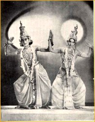 Guru Gopinath (June 24, 1908 – October 9, 1987) was an Indian classical dancer, Kathakali master and mentor of a relatively new creative modern dancing style called Kerala Natanam.